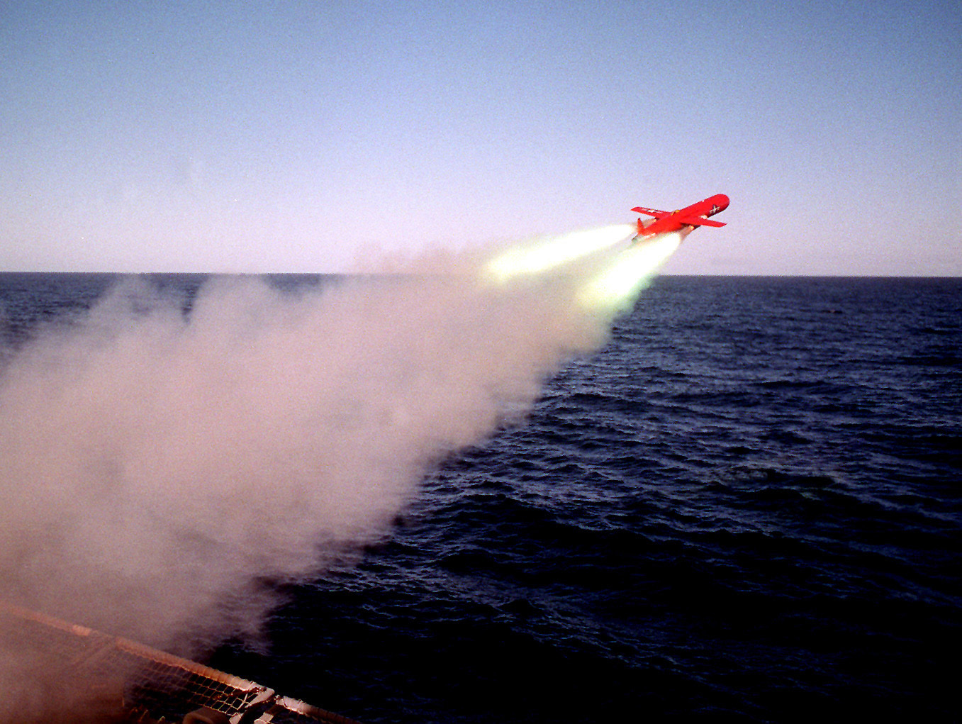 MK117 Jato Booster assisted BQM-74 aerial target soars into flight for gunnery exercises of units participating in UNITAS 37-96. The target can simulate aircraft or cruise missiles in a variety of threat profiles. The BQM is operated and maintained by Fleet Composite Squadron Six (FLECOMPRON SIX) aerial target detachment two homeported at Dam Neck, Virginia. UNITAS is an annual operation in which a US Navy task group conduct combined exercises with participating navies. The task group for UNITAS 37-96 include the frigate USS JOHN L. HALL (FFG 32), tank landing ship USS LA MOURE COUNTY (LST 1194) (not shown) and the attack submarine USS NARWHAL (SSN 671) (not shown)